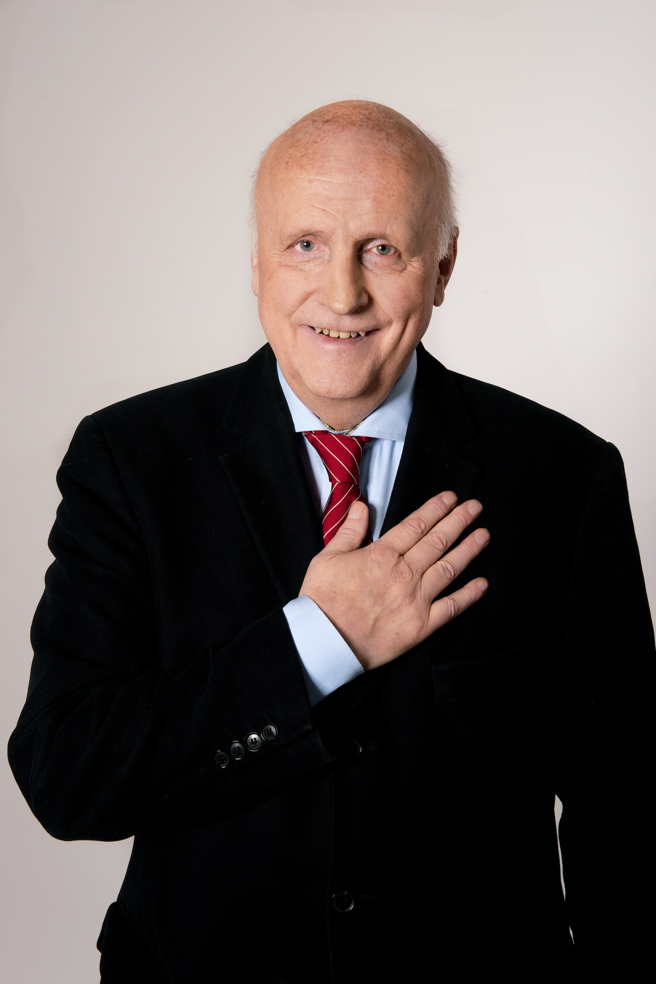 Swedish sports journalist Arne Hegerfors in a promotional photo for the The Swedish Heart-Lung Foundation.